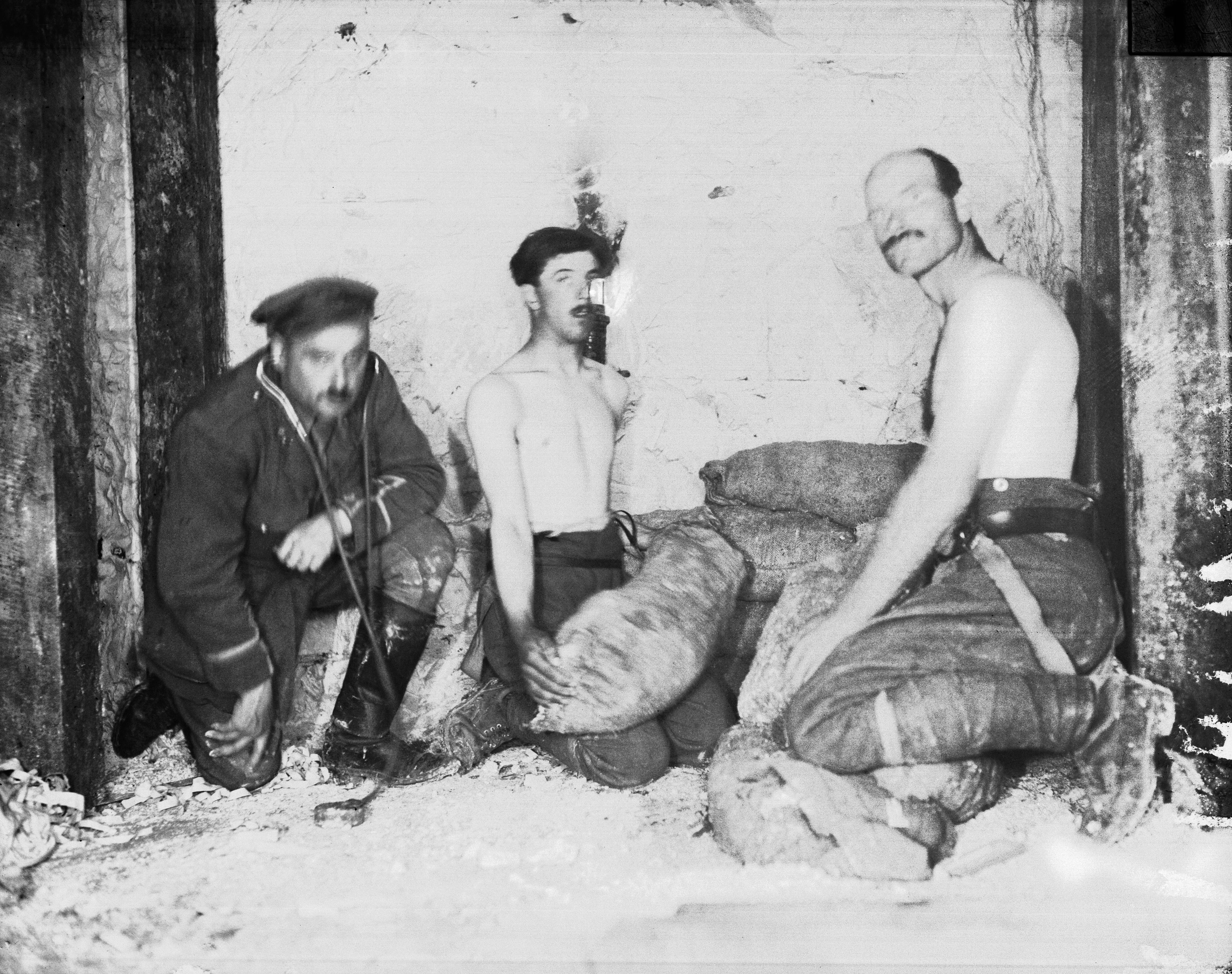 The Battle of the Somme, July-november 1916 Battle of Albert. Laying a charge in a mine chamber. Note the officer using Geophone. July 1916.